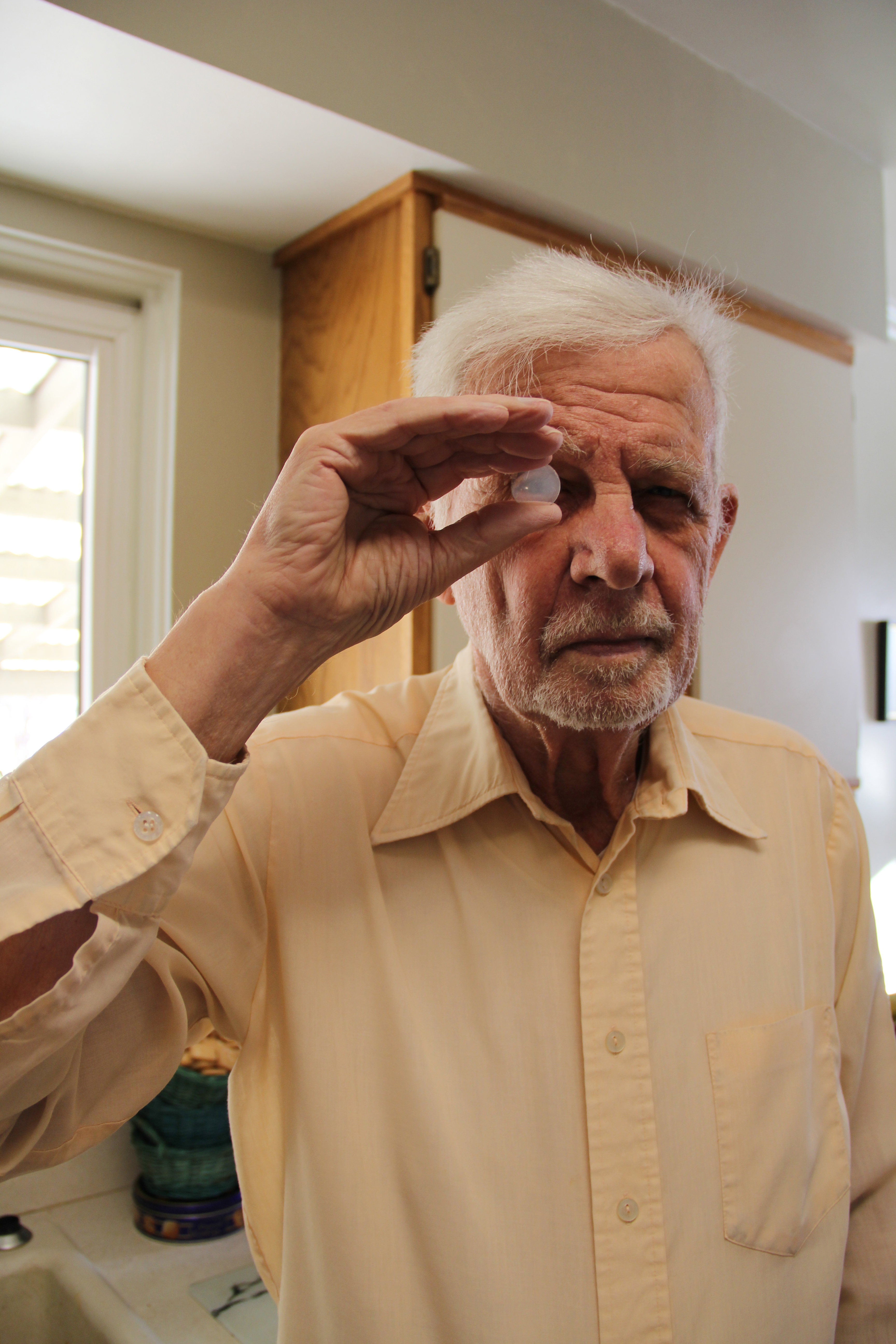 Richard C. Anderson (b. Dec. 4, 1931), inventor of Yttralox, holding up a sample of the transparent ceramic he invented in 1965. Photo taken at his home in Missoula, MT, 2014.